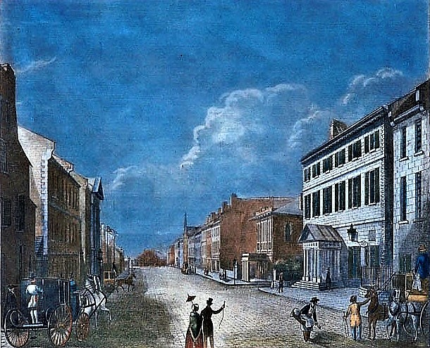 Print, Great St. James Street, Montreal, John Murray, 1843-1844, Ink and watercolour on paper - Etching - 24.2 x 27.2 cm